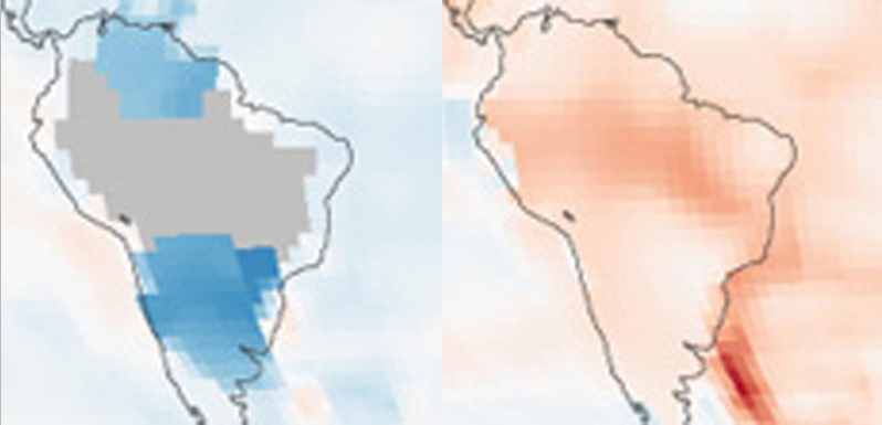 From the public-domain source (US Environmental Protection Agency (US EPA), 2012): Temperatures across the world in the 1880s and the 1980s, as compared to average temperatures from 1951 to 1980.